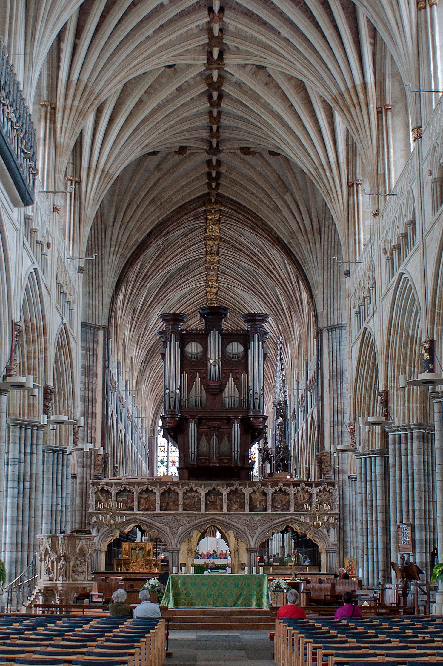 Exeter Cathedral